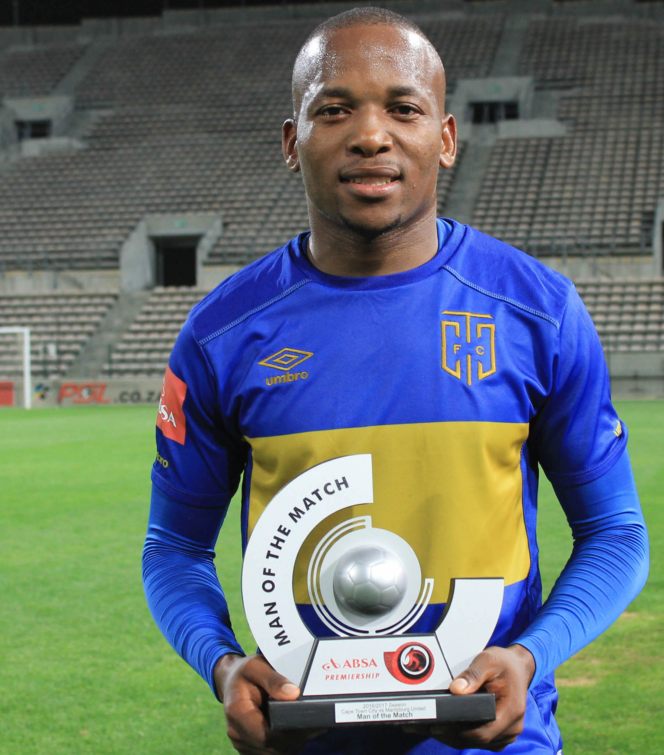 Aubrey Ngoma collects another Man of the Match award after Cape Town City FC's 3-2 victory over Maritzburg Utd.